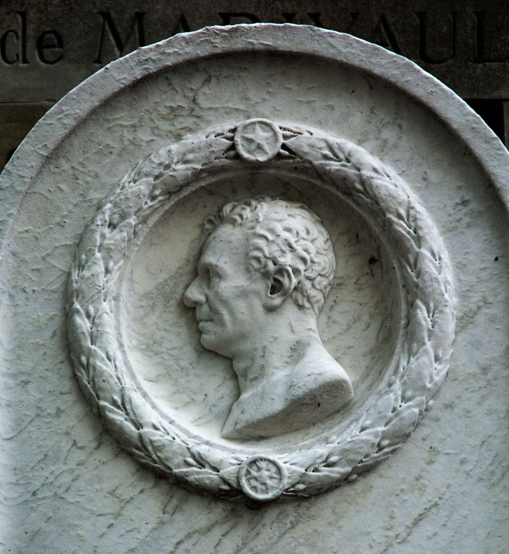 pere lachaise cemetery in the 20th arrondissement division 11